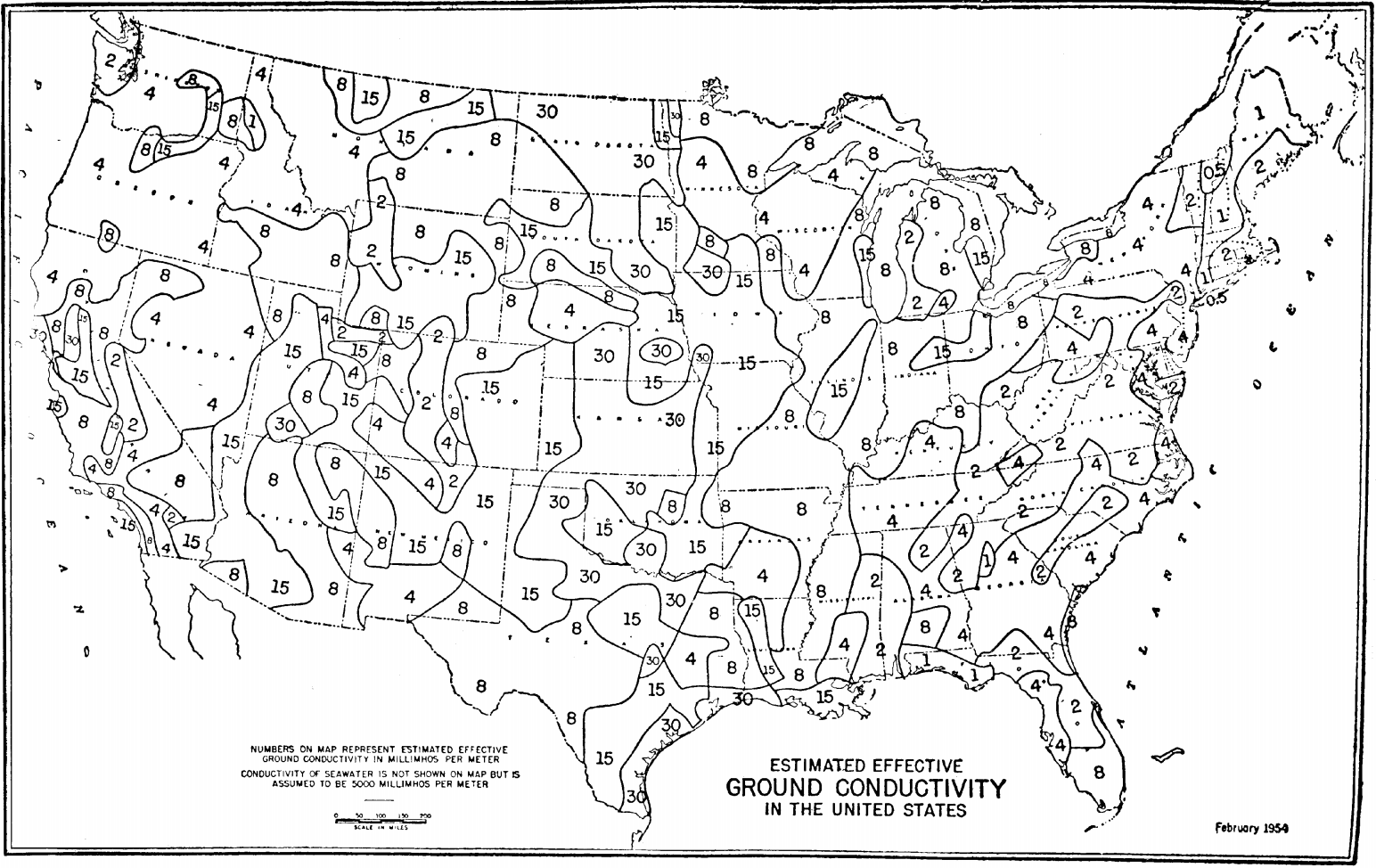 United States Effective Ground Conductivity Map